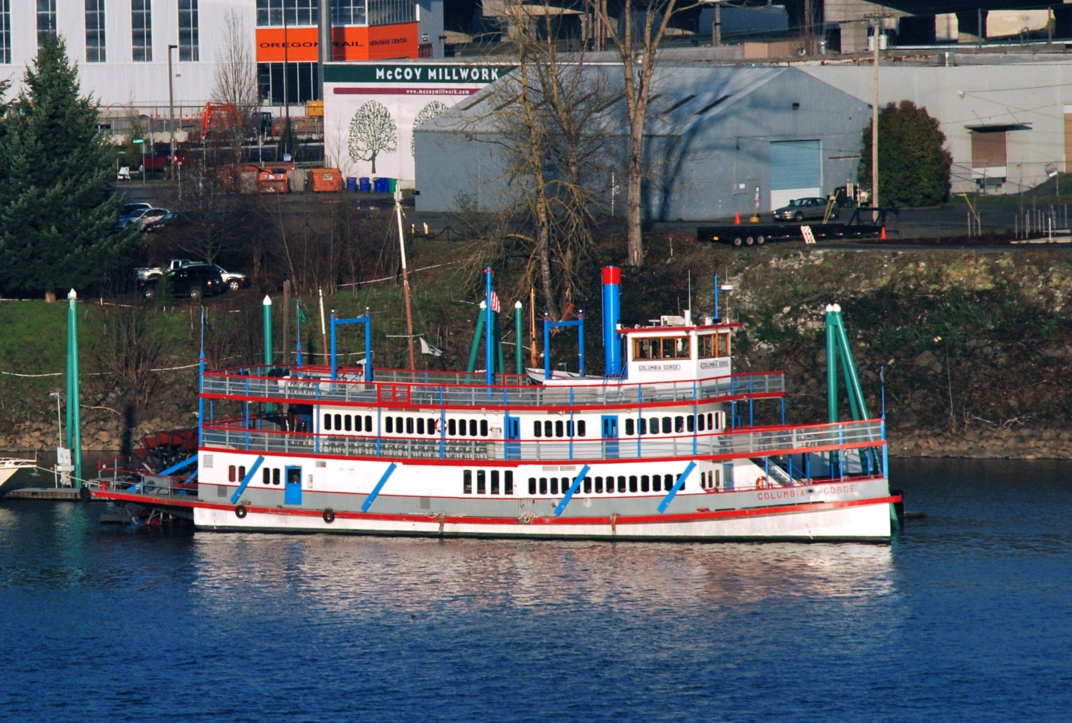 The sternwheeler Columbia Gorge moored on the Willamette River in Portland, just south of the Oregon Museum of Science and Industry (OMSI).